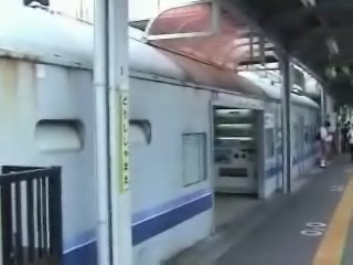 A former JNR 583 series EMU car used as a waiting room at Doshishamae Station